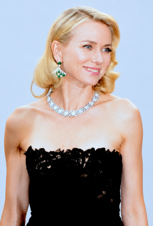 Naomi Watts at the Cannes film festival